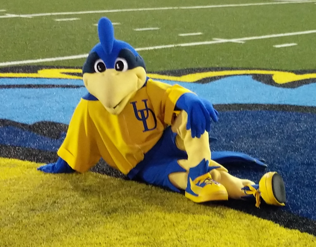 Thumbnail for YoUDee article.